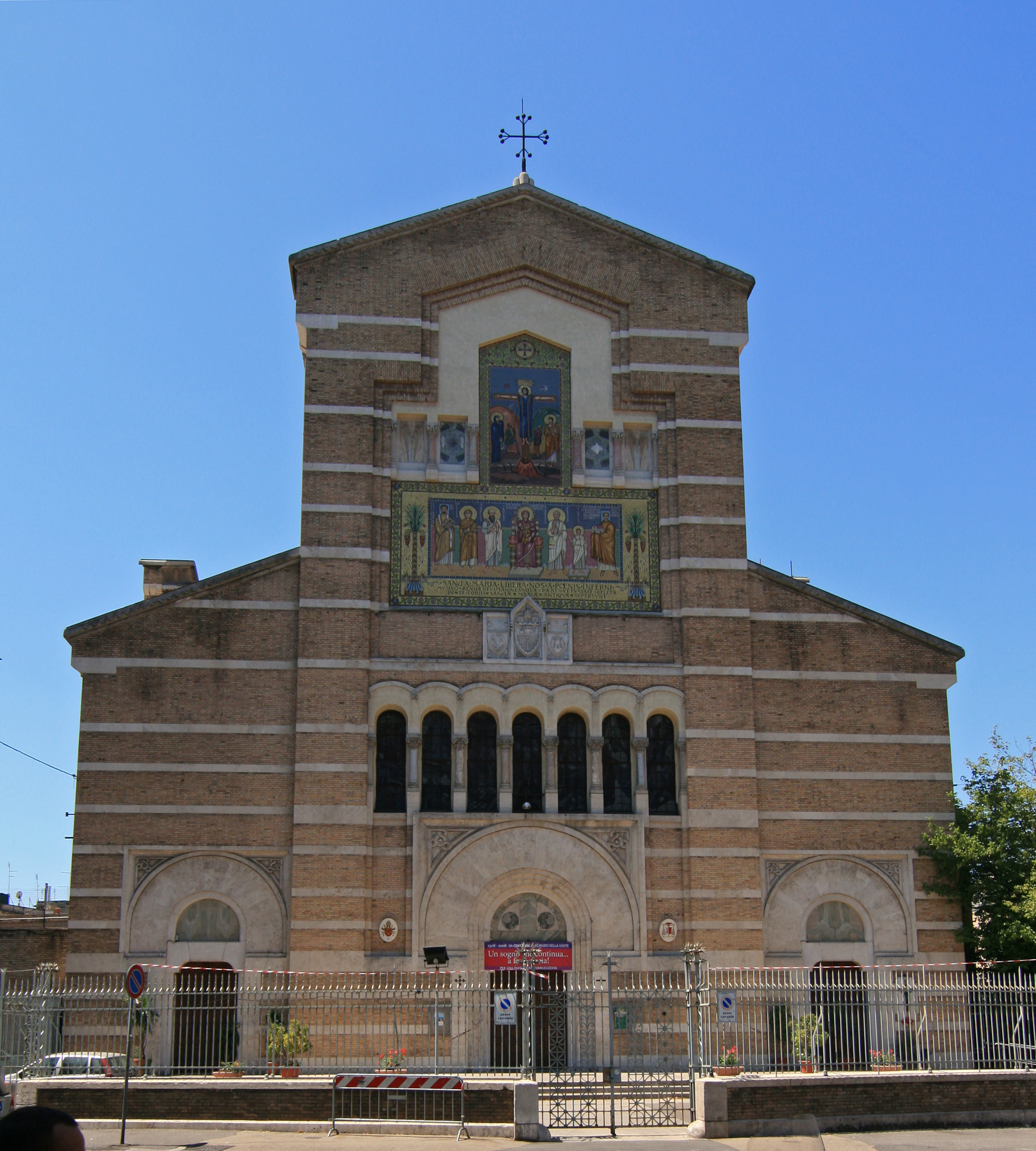 Church of Santa Maria Liberatrice, Rome.